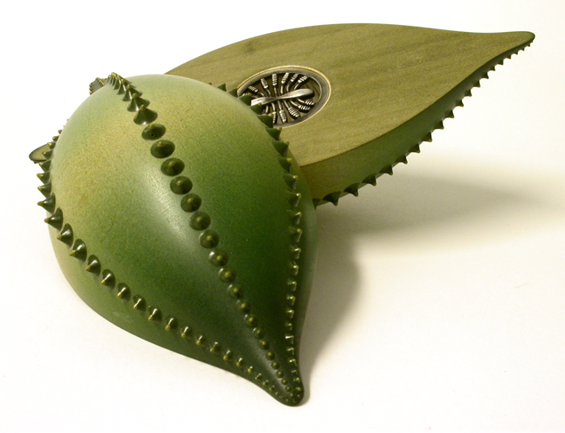 Diatoms in Art - a representation of Navicula sp. The main body is sycamore, the ‘blobs’ are resin, and the object is coloured with inks. The piece is held together by magnets but splits in half to reveal two silver inserts at its centre.